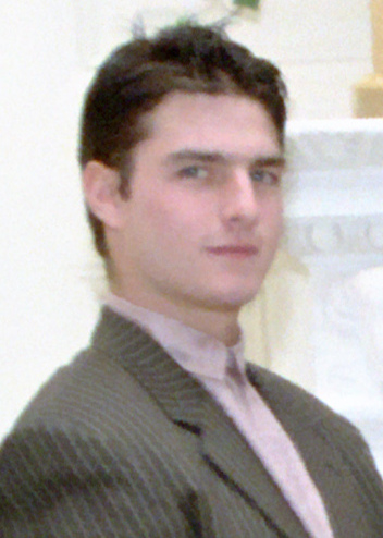 Nancy Reagan Photo Op. with Lab School Honorees Cher Tom Cruise Bruce Jenner Robert Rauchenberg in The State Dining Room, 10/30/1985